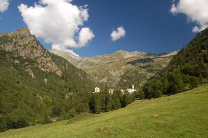 General view of Rima San Giuseppe, province of Vercelli, Italy